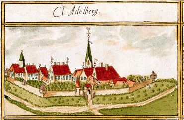 Adelberg Abbey, drawing from Andreas Kieser's Forstlagerbuch, 1685